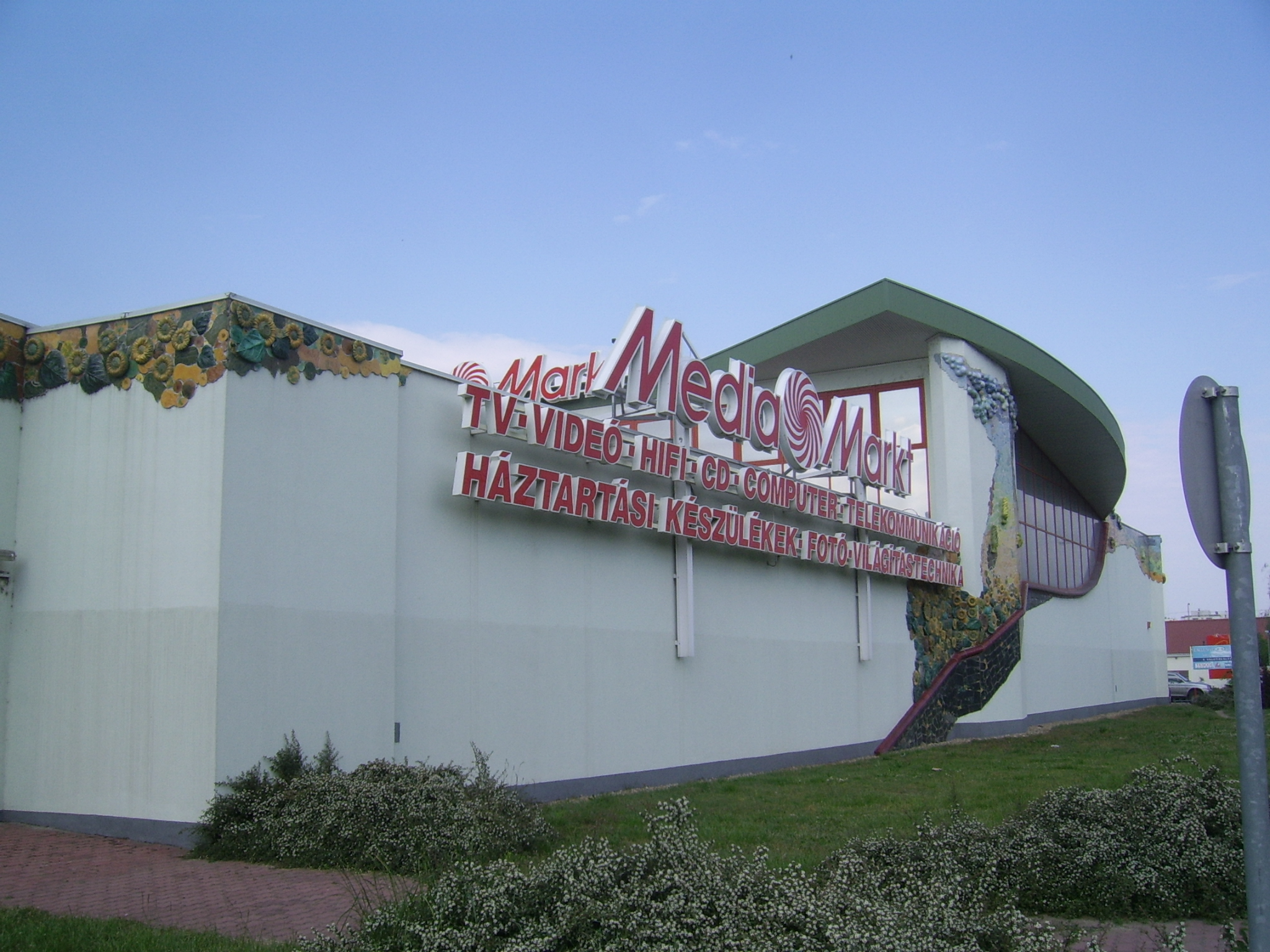 Mosaic picture of ceramics on the frontage of the Media Markt building in Szeged.